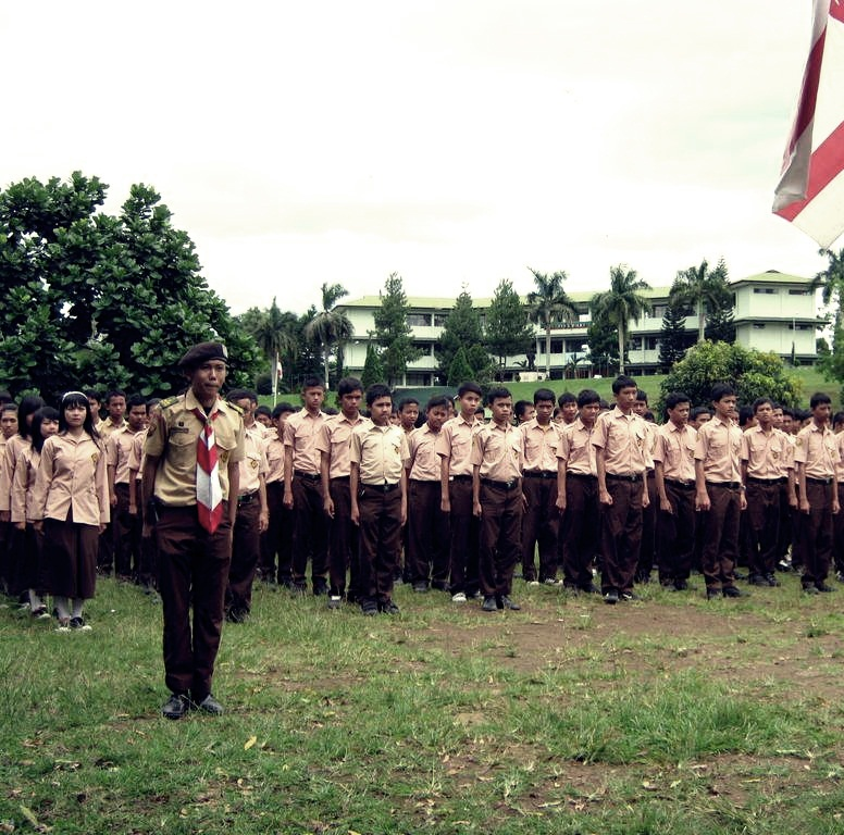 Ekstrakurikuler Pramuka